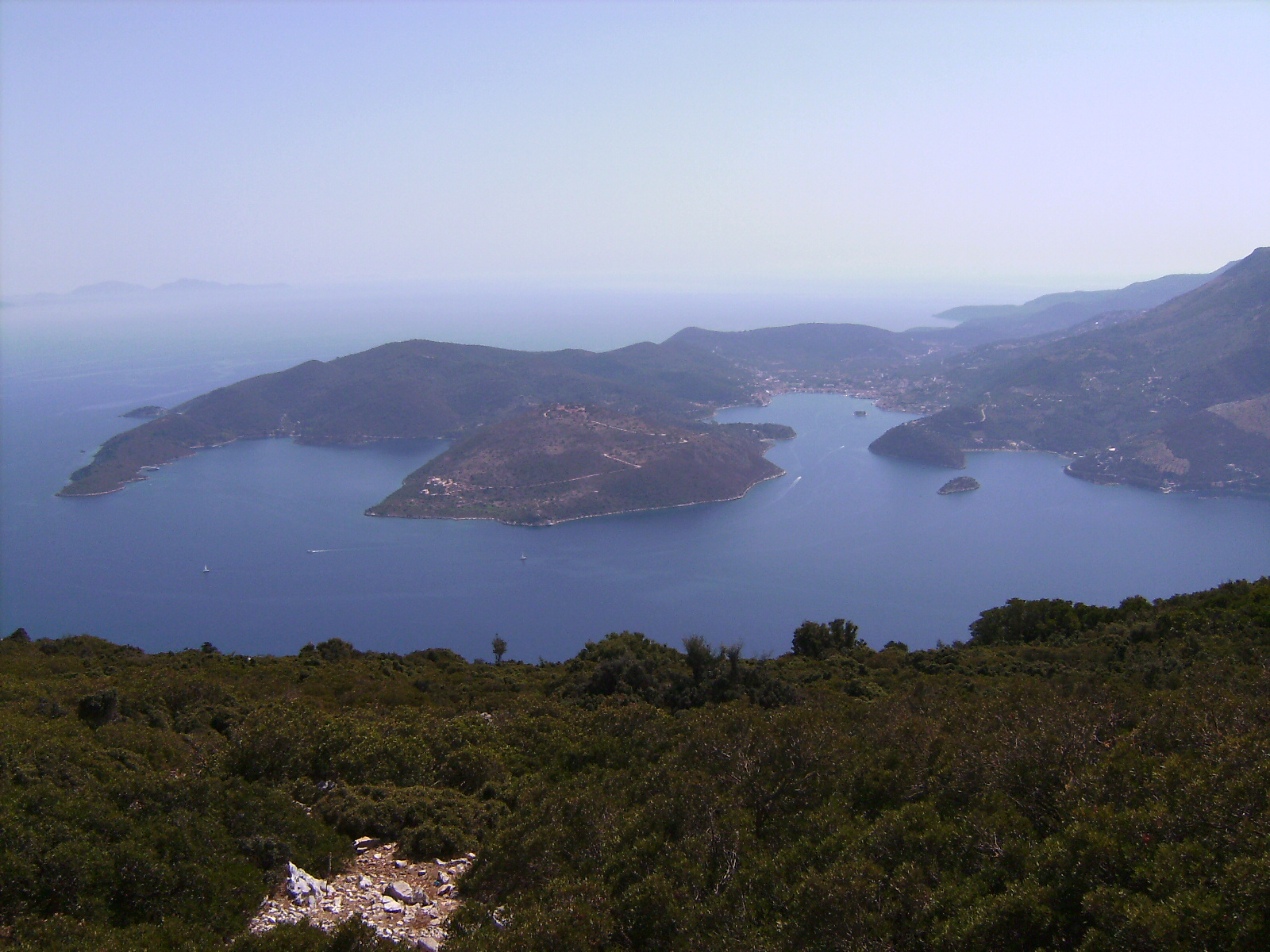 View on the island of Ithaki, land of Odysseus, Greece.